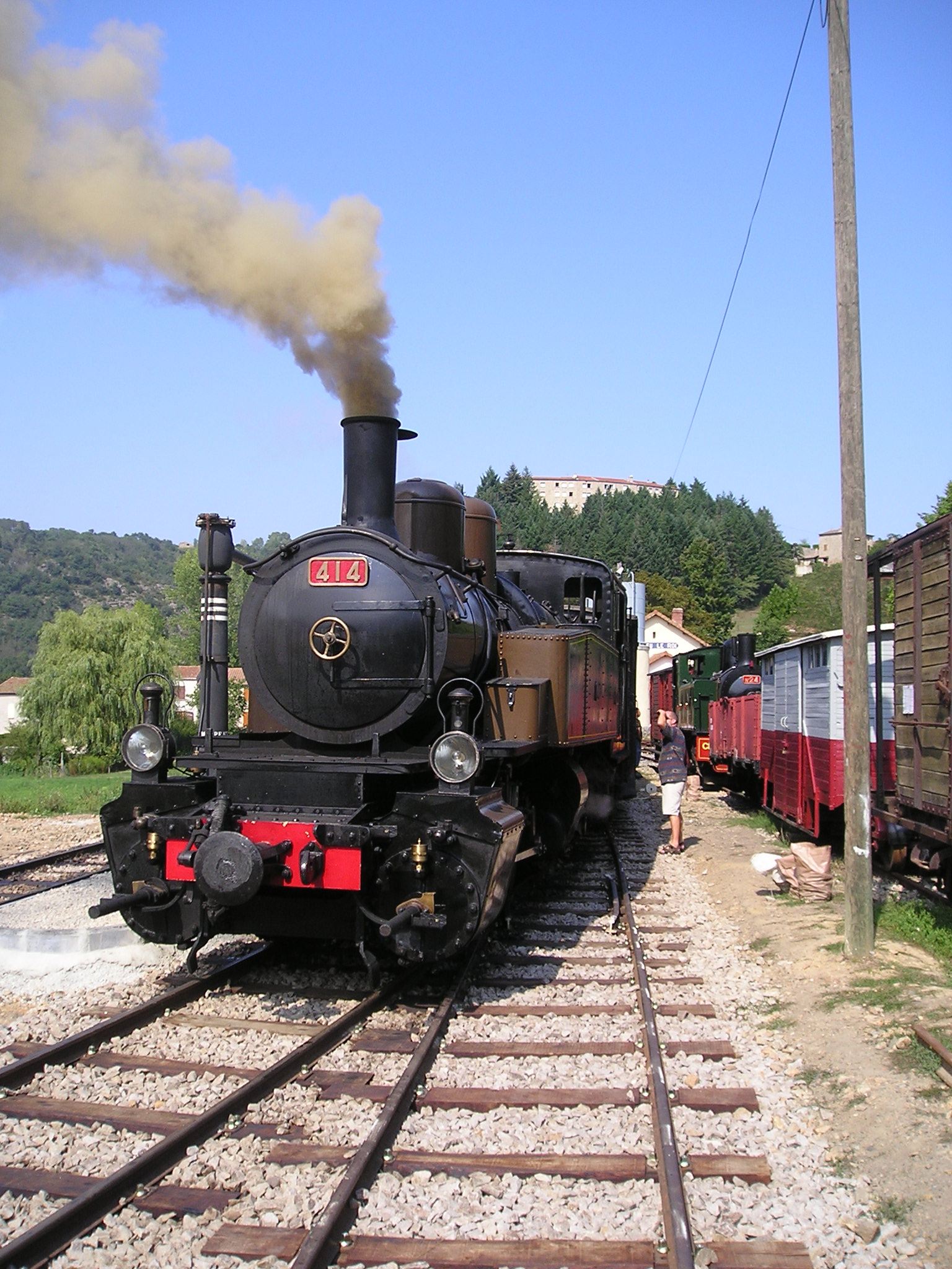 This is the entry of the vivarais touristic train in its middle station